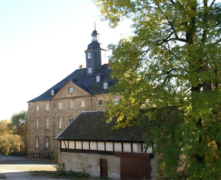 Castle of Dobitschen near Schmölln, Germany.